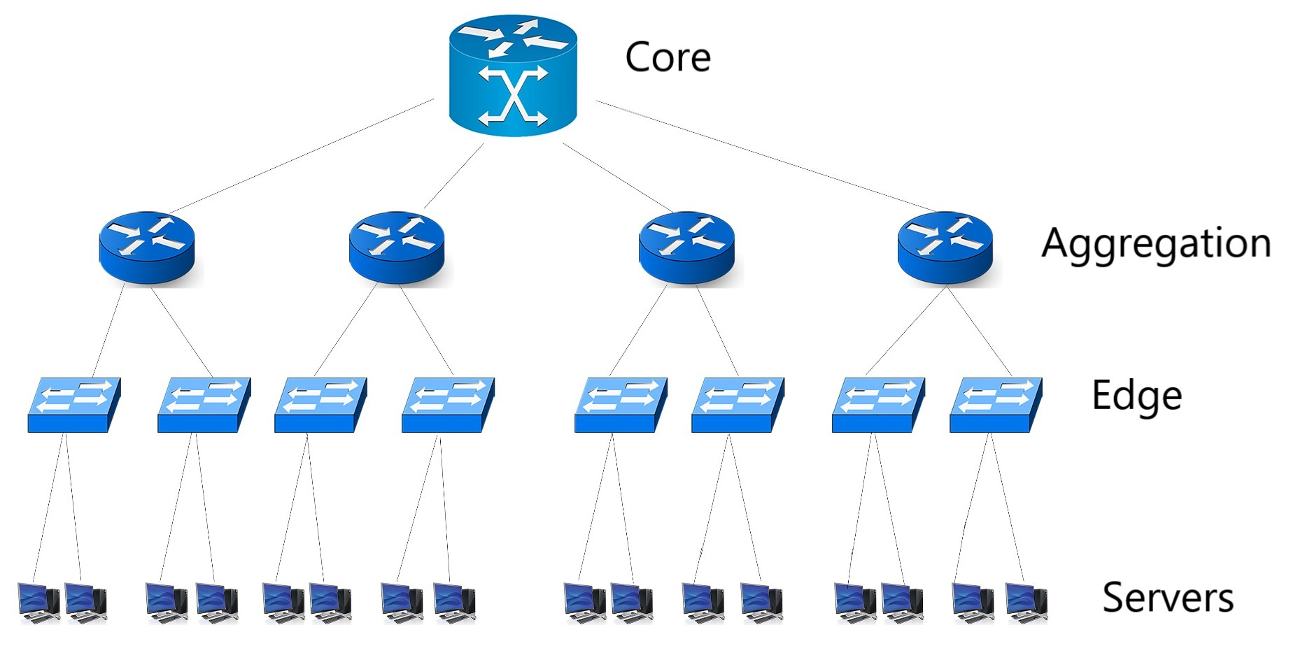 topologia di rete per data center basic tree